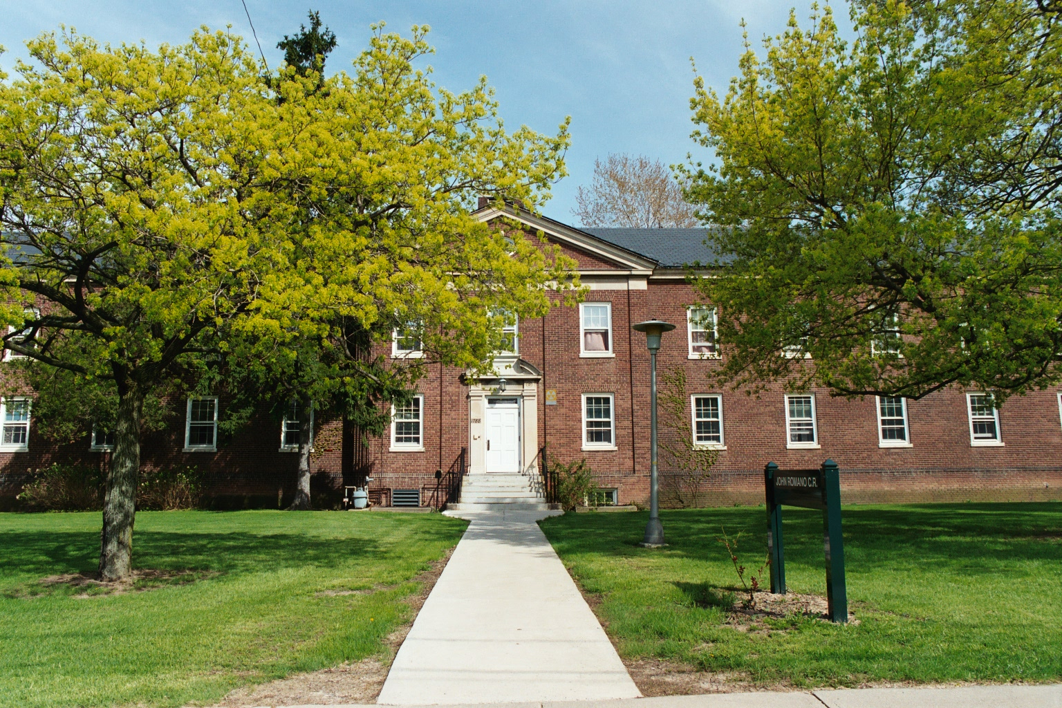 John Romano Community Residence at 1788 South Avenue, operated by the state and located on the Rochester Psychiatric Center grounds.